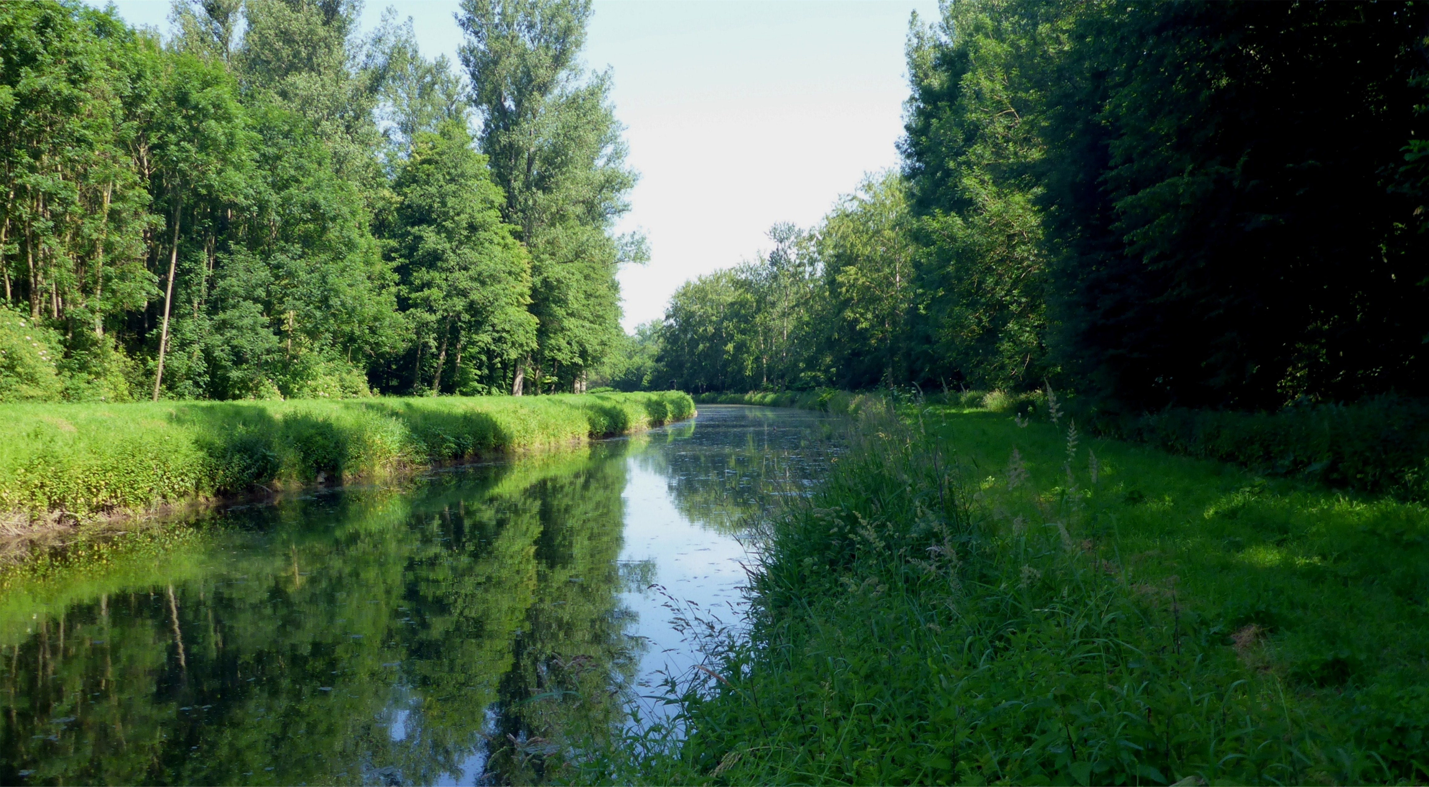 Landschaftsschutzgebiet „Füllbruch-Vokkenau“ is a Protected landscape area in Baden-Württemberg, Germany.